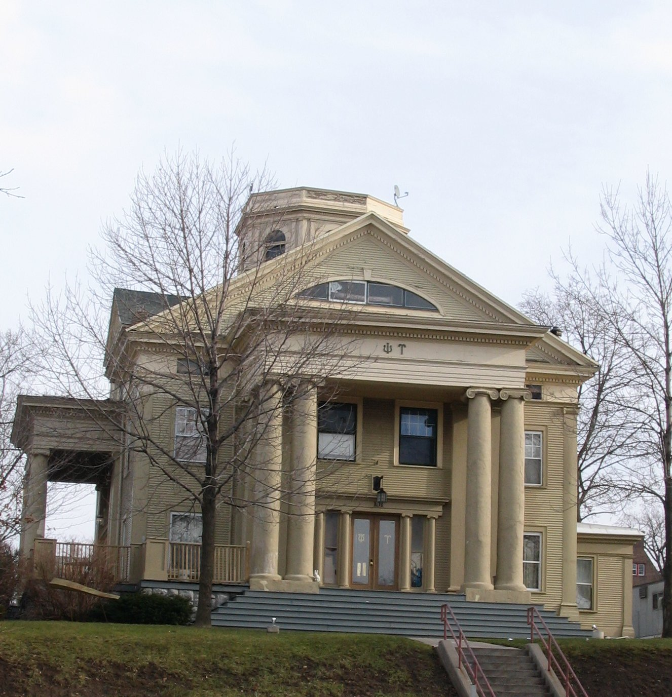 This is an image of the Pi Chapter House of Psi Upsilon Fraternity that I took with my digital camera. This building is located on Syracuse University.